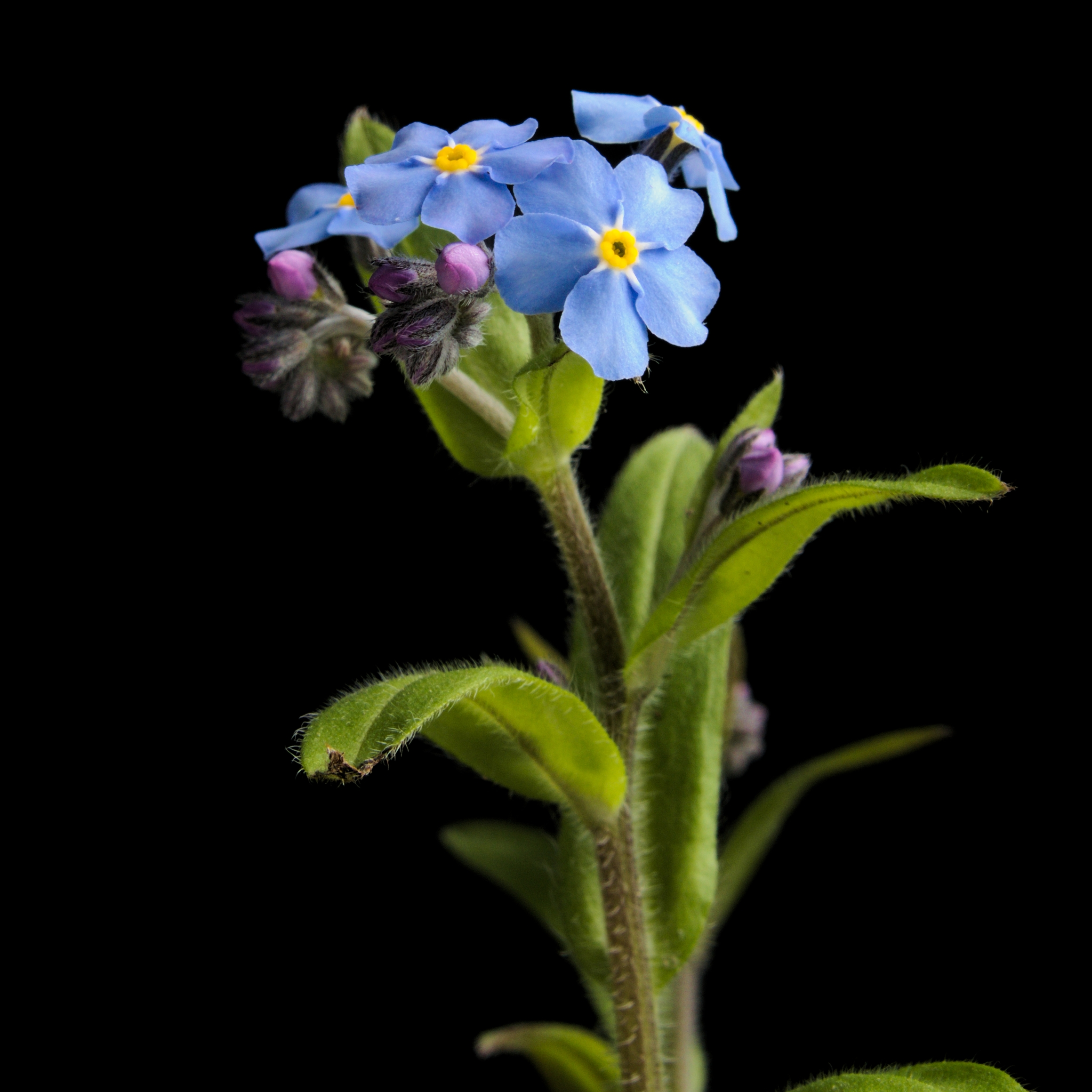 Myosotis alpestris F.W.SchmidtFlowering alpine forget-me-not (diameter of flowers is appr. 1 cm). Moscow region, Russia.